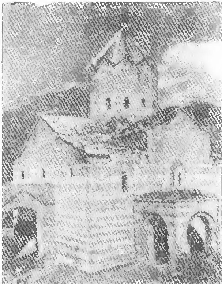 S Tovma Araqyal church in Agulis